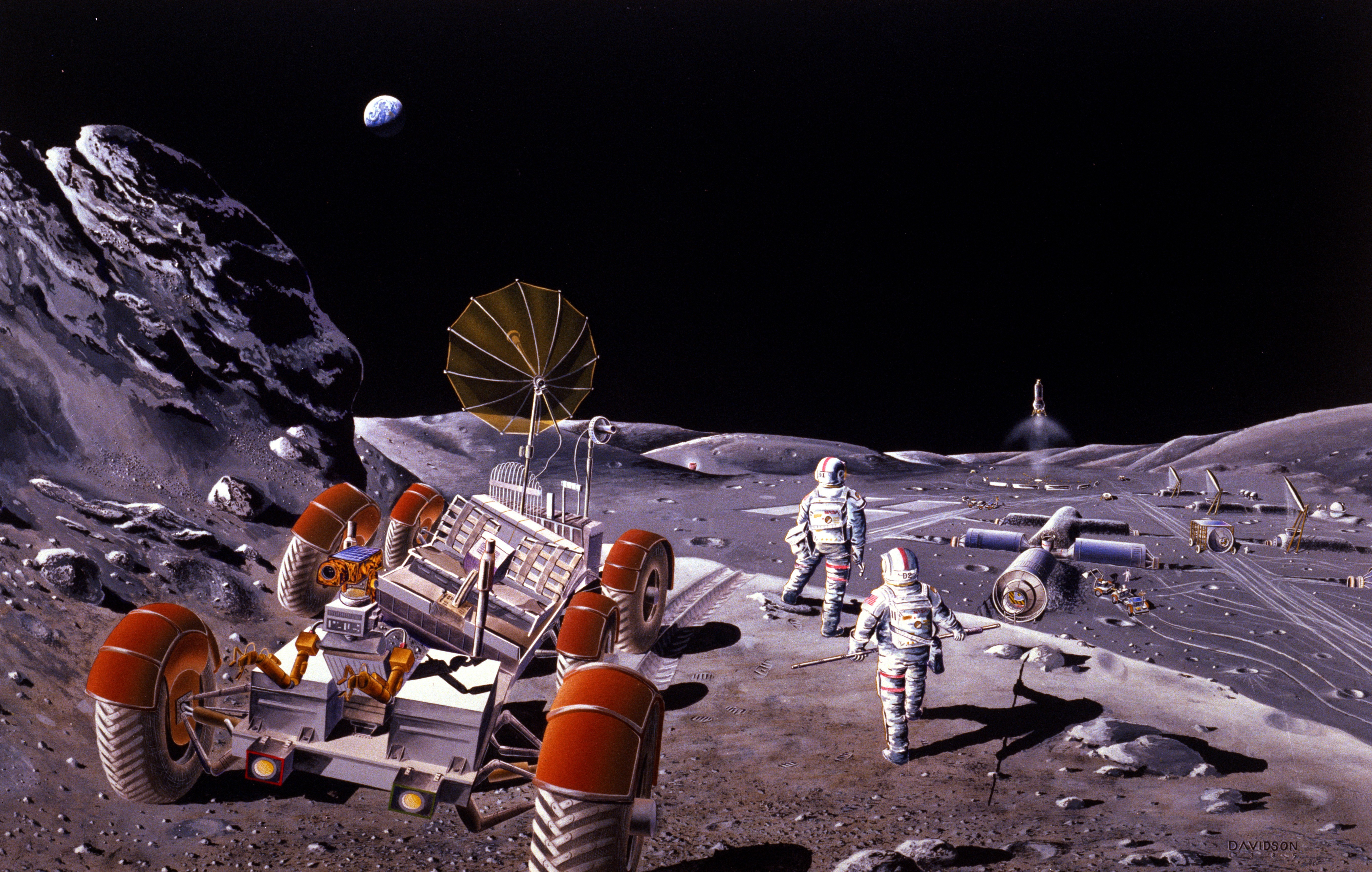 This artist's concept of a lunar base and extra-base activity was revealed during a 1986 Summer Study on possible future activities for the National Aeronautics and Space Administration. A roving vehicle similar to the one used on three Apollo missions is depicted in the foreground. The artwork was done by Dennis Davidson.